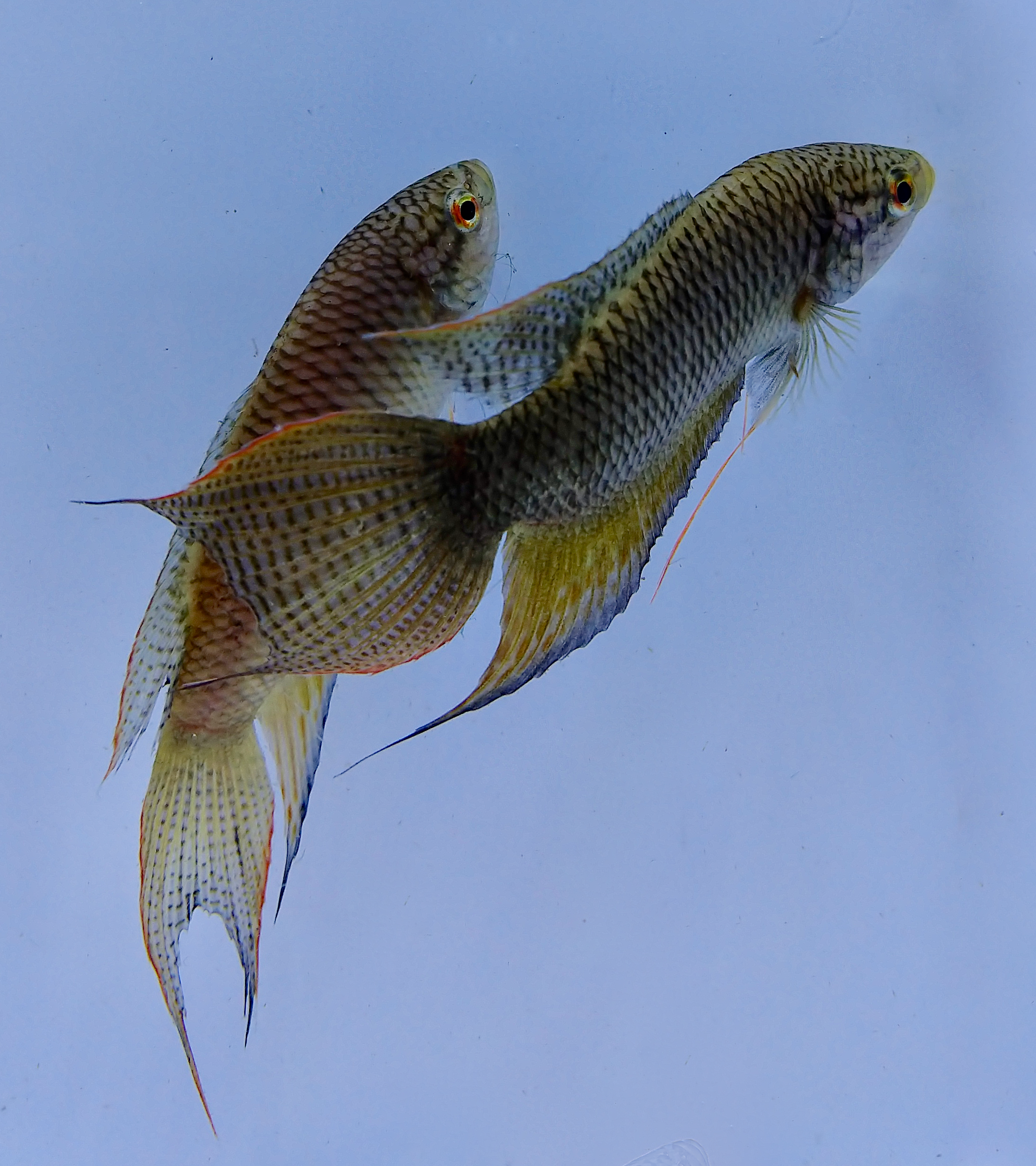 Two male Macropodus spechti males sparring